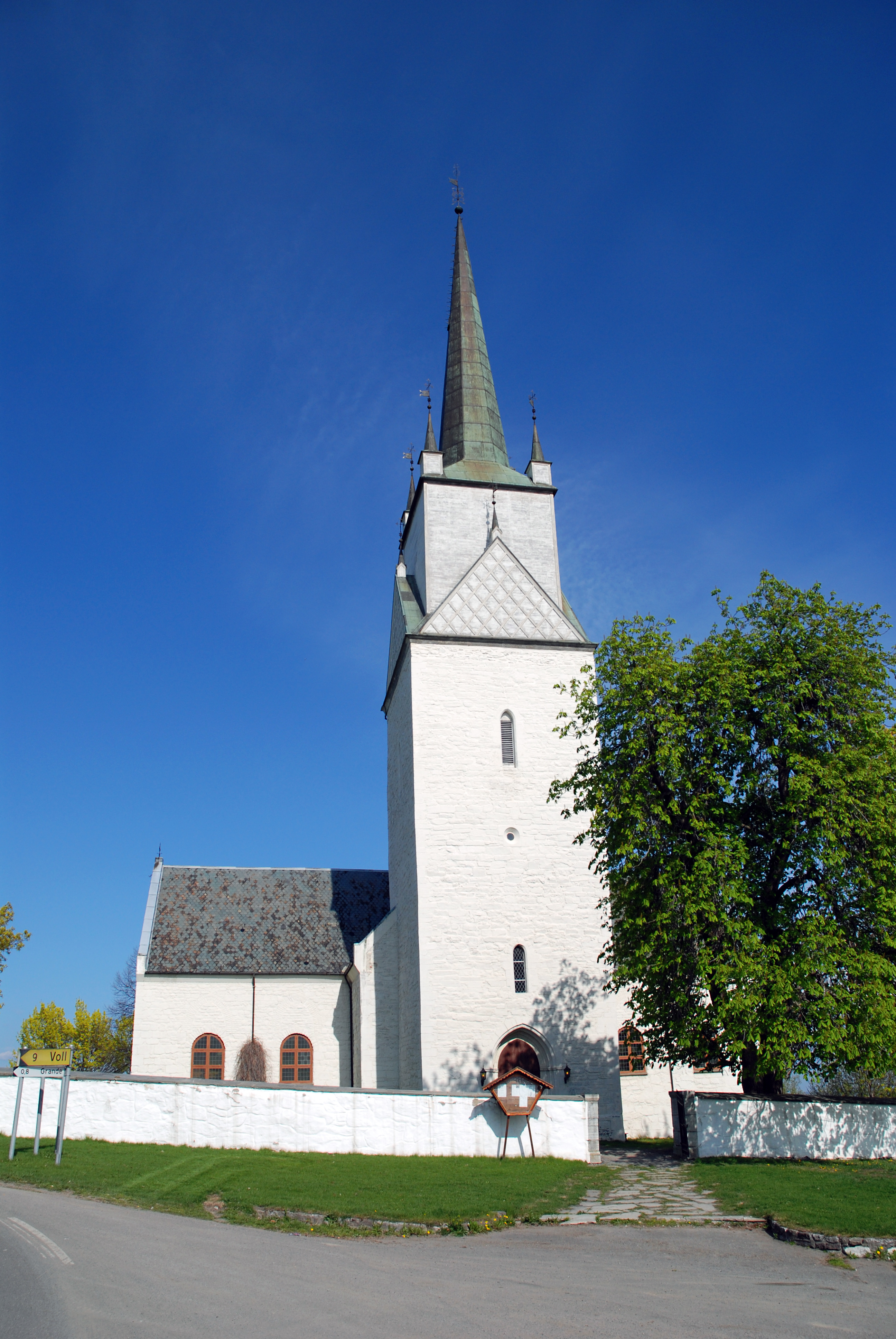 Nes church at Tingnes, in Ringsaker, Hedmark, Norway.